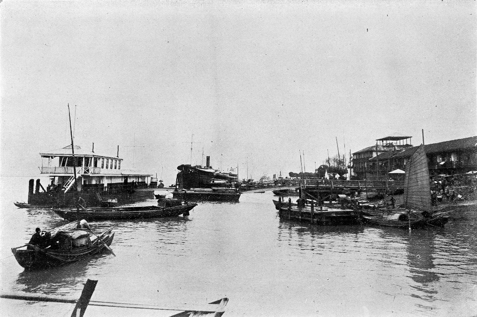 Photo from Souvenir of Nanking